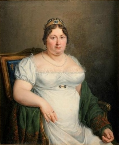 Marie Josephine of Savoy, Countess of Provence and Titular Queen consort of France and of Navarre, done during her exile